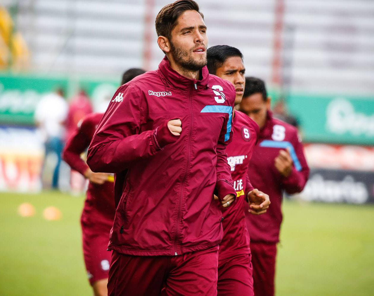 01-18-2018. Jonathan Moya training with Deportivo Saprissa.